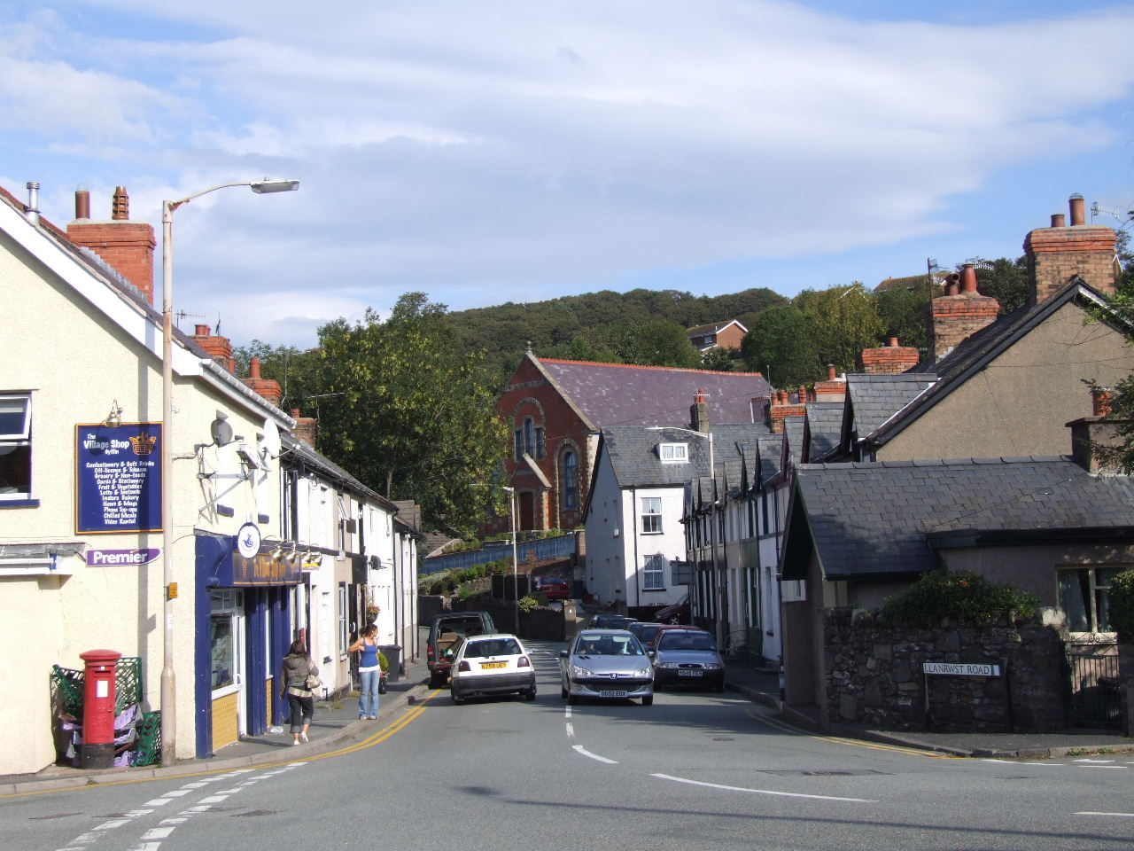 Gyffin High Street, near Conwy, Conwy County, Wales